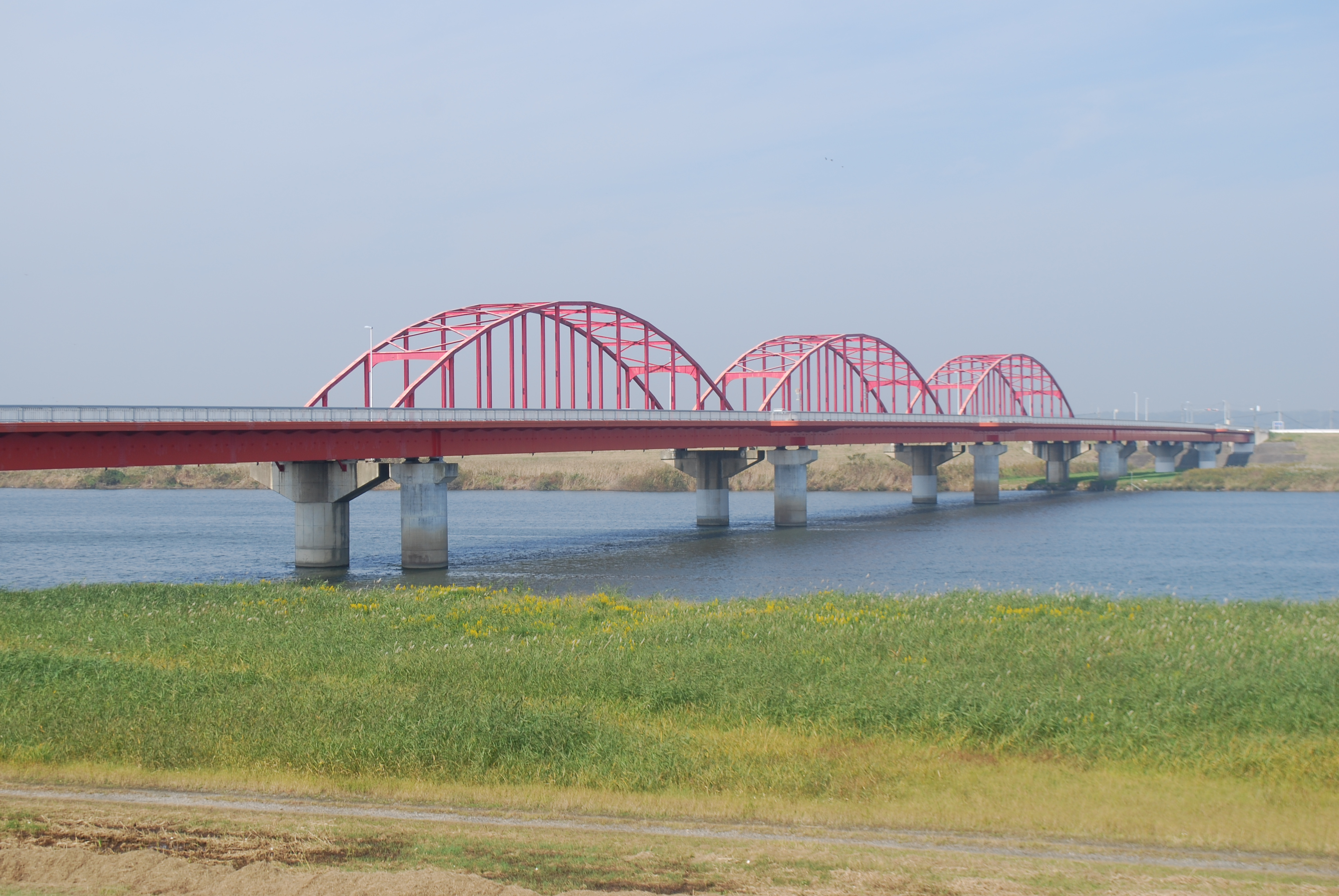 Kozaki-bridge and Tone-river,Kozaki-town,Chiba-pref.,Japan